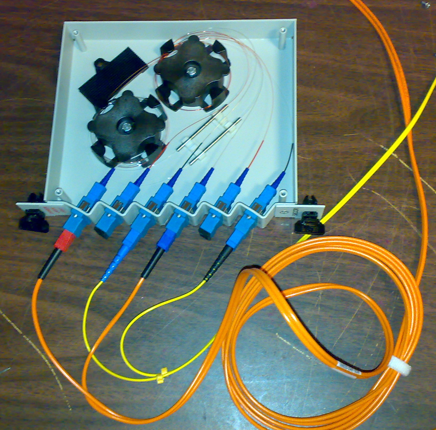 a fiber-optic splitter: 2x(input - orange, 90% out - yellow, 10%out - capped). Ports are: IN1; MON1; OUT1; IN2; MON2; OUT2.